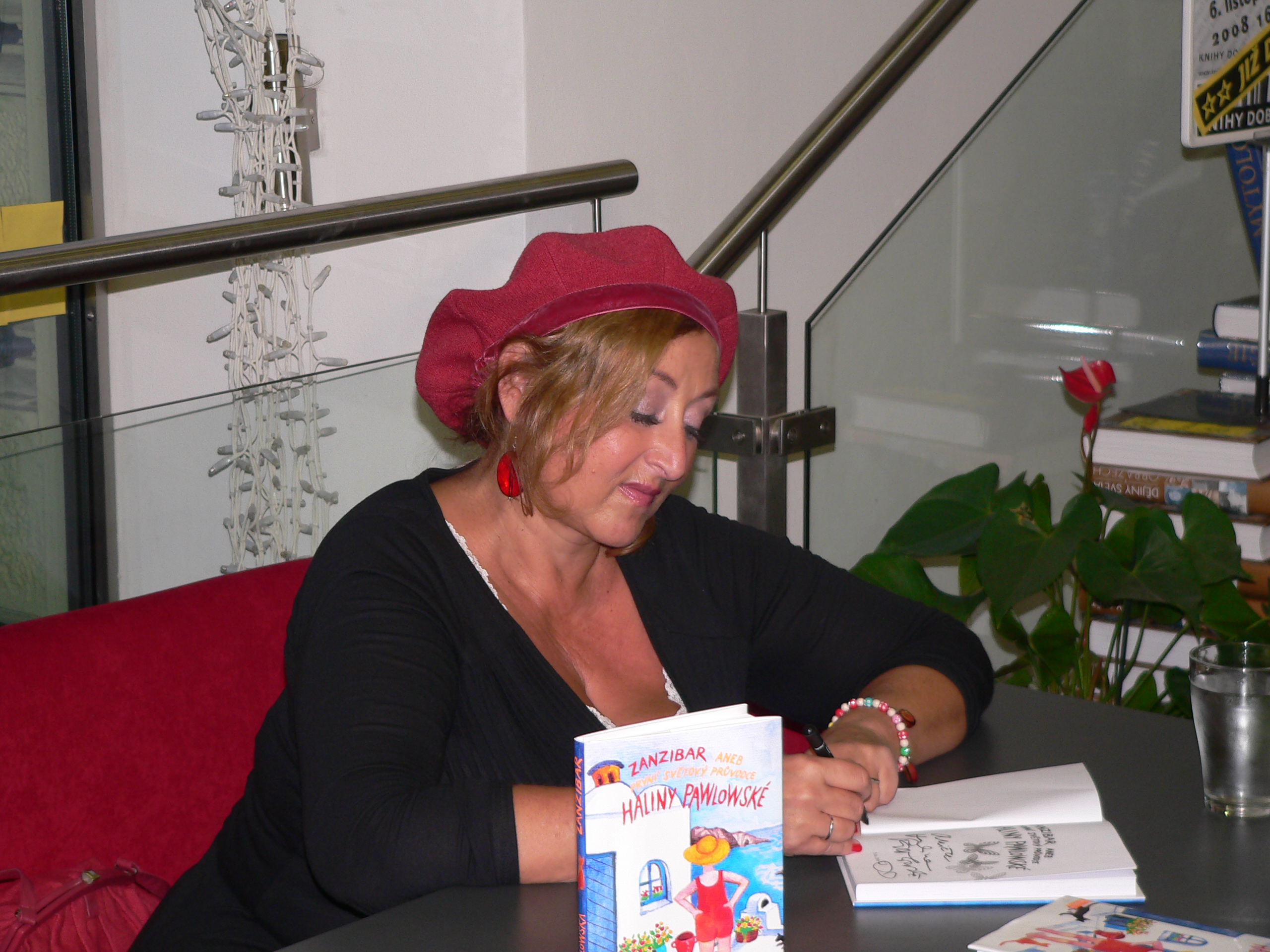 Halina Pawlowská presents her book "Zanzibar", Brno, 2008